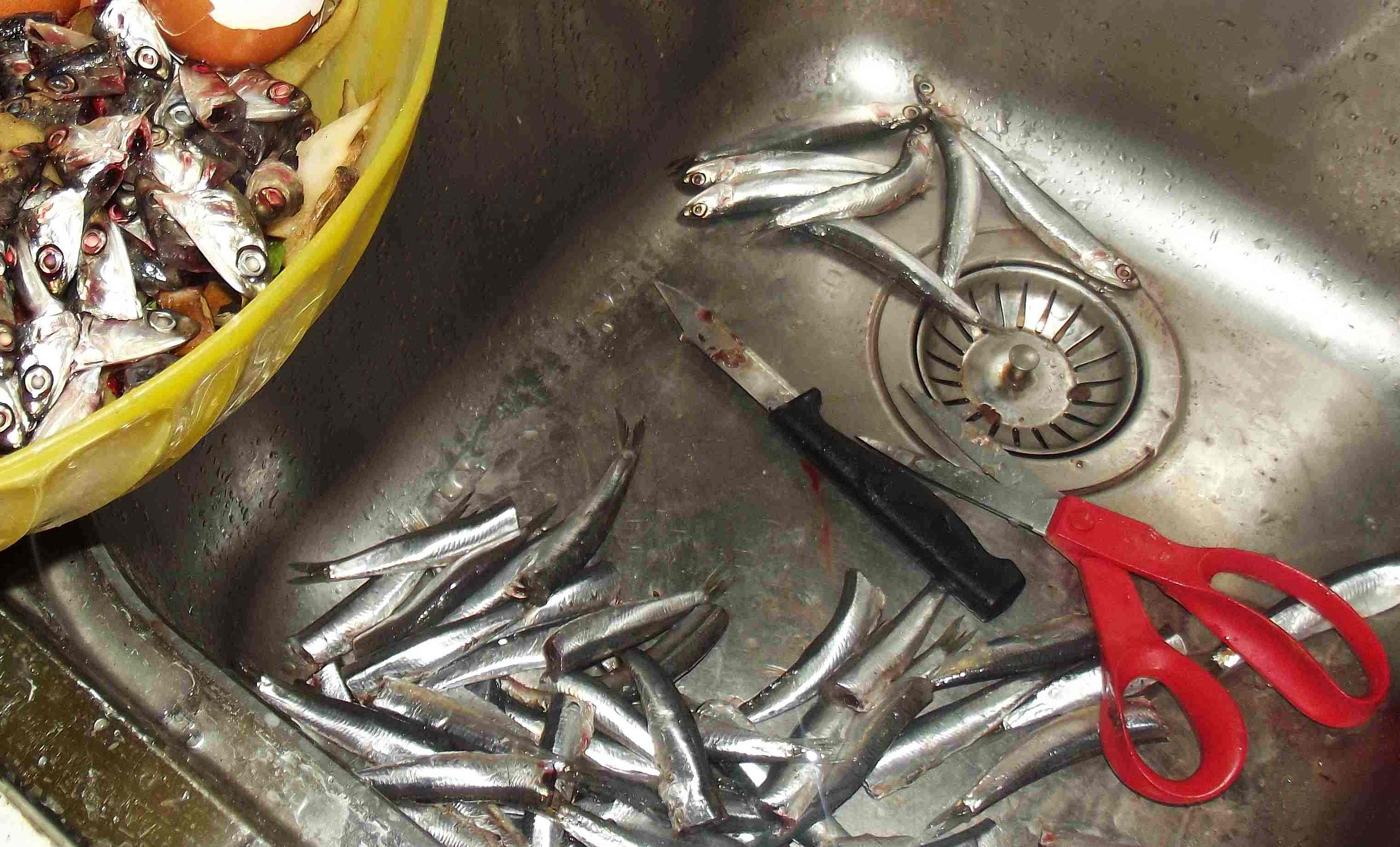 Stuffed anchovies: fish cleaning